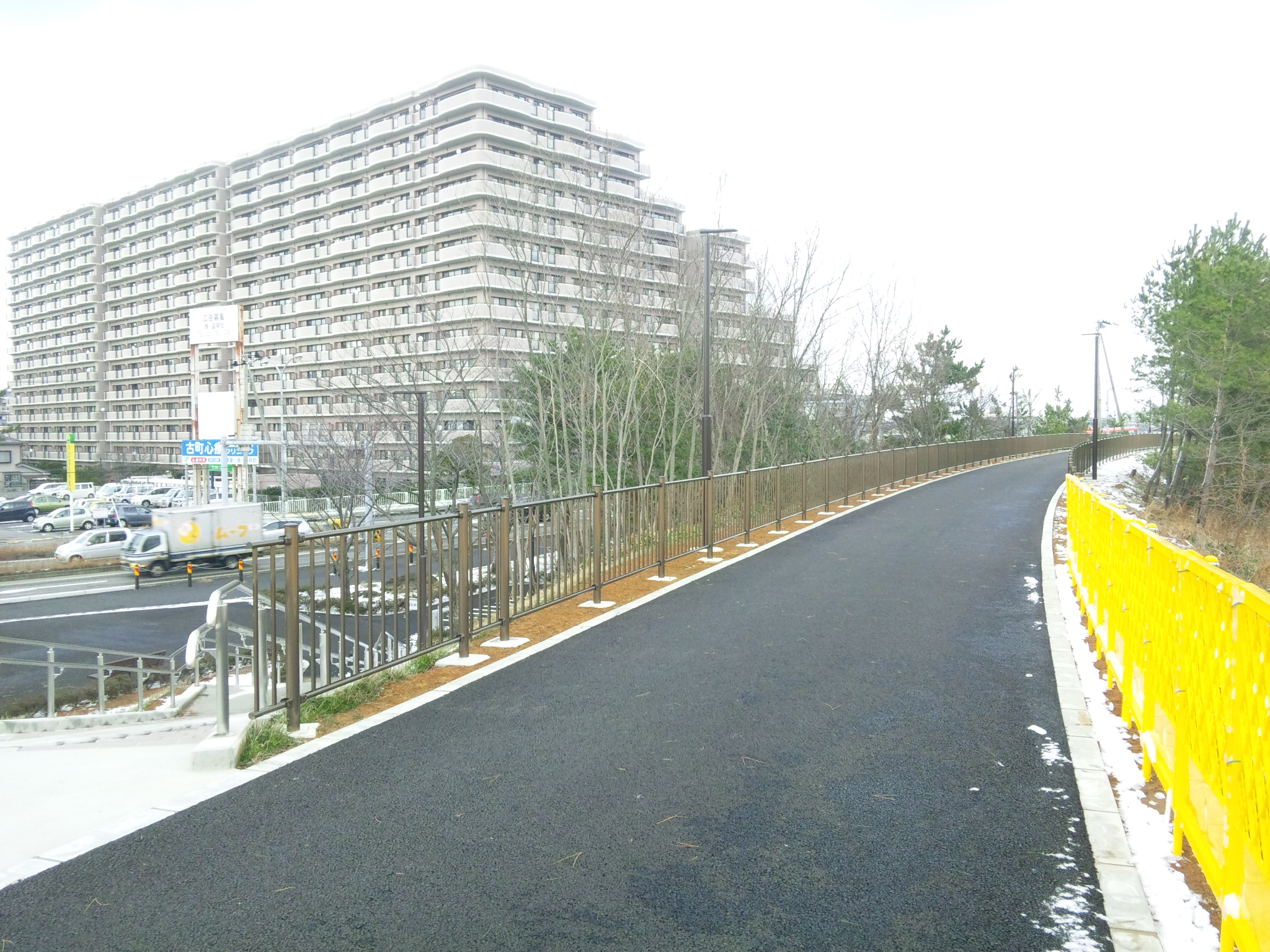 The remains of Higashiaoyama Station, Niigata Kotsu Railway which became the abolished line on April 5, 1999. This station became the abandoned station on April 5, 1999.